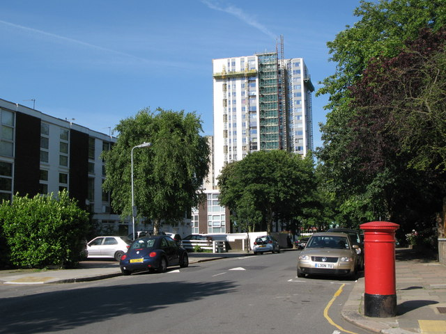 Fellows Road, NW3. Shows the location of 881975.